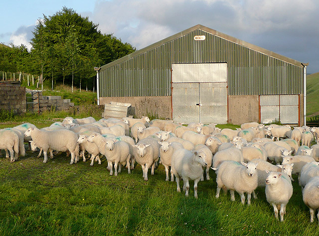 "Why has Nigel locked our Mums in there?" Late evening shadows, and quite a lot of noise, in and out of doors, which would go on through the night. The ewes had been separated from the lambs and locked in the shed ready for shearing and pitching on the next day.